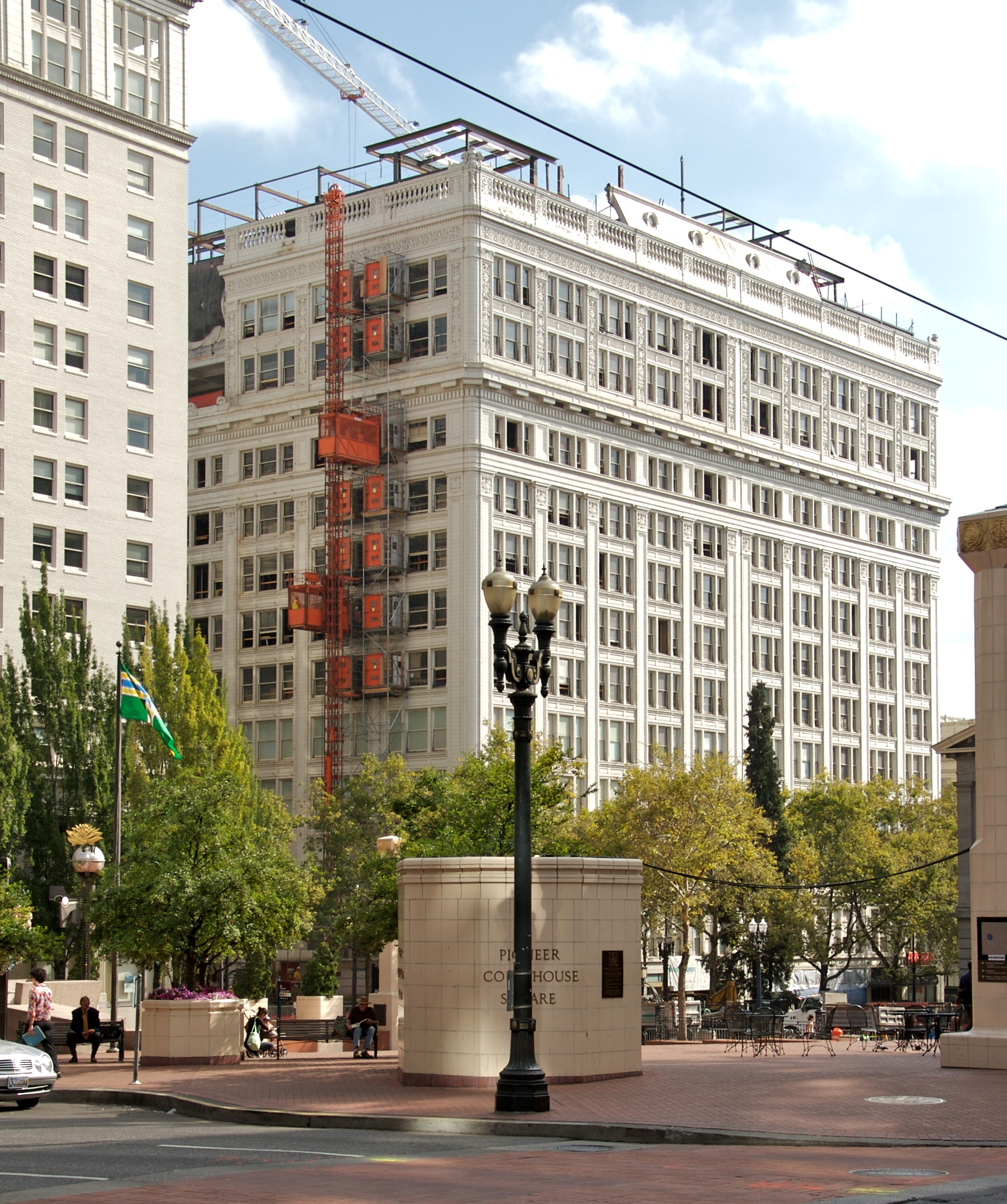 The Meier & Frank Building in Portland, Oregon, United States, is listed on the US National Register of Historic Places (NRHP). NRHP reference number 82003744